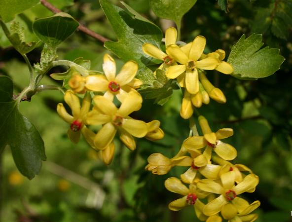 Ribes odoratum: Flowers and a few leaves.